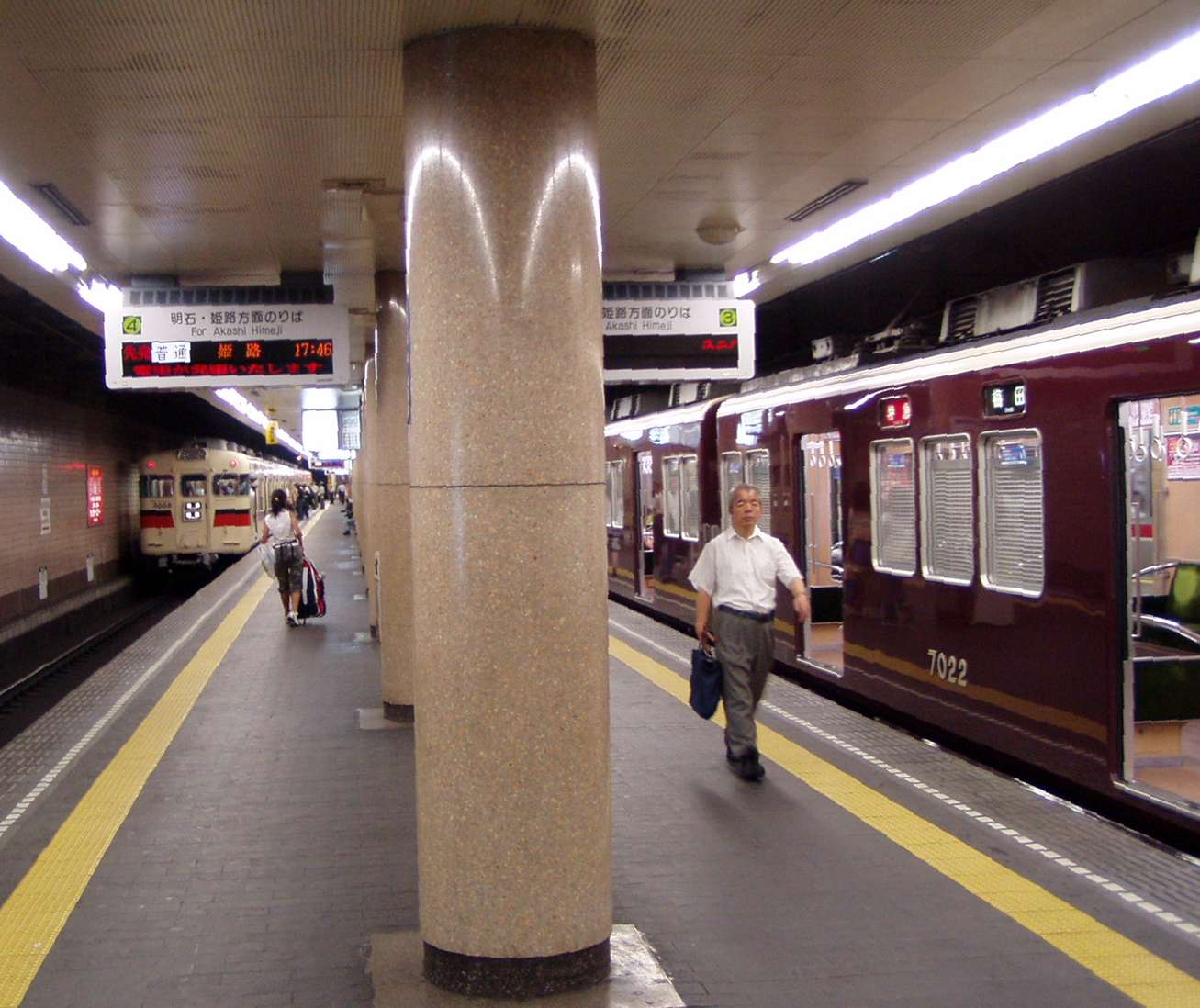 Kobe: Hankyu and Sanyo trains at Shinkaichi station on Kobe Kosoku Railway.